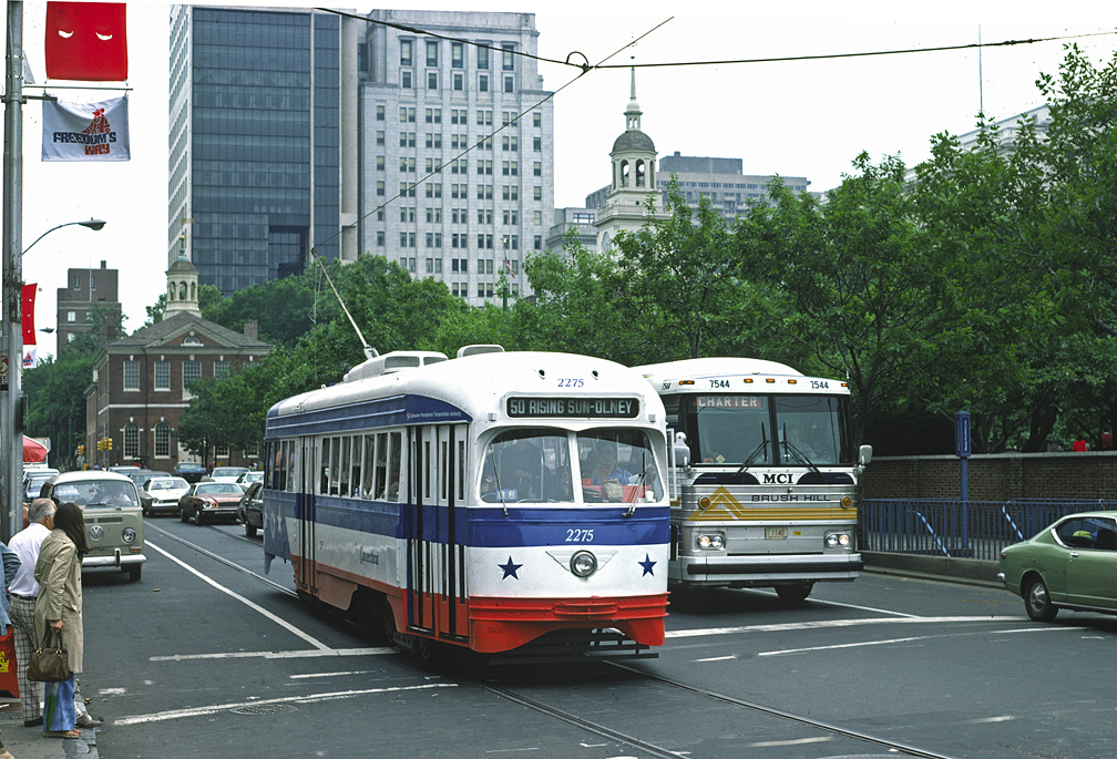 SEPTA PCC-type streetcar/trolley (tram) No. 2275 northbound on 5th Street at Market Street, on route 50, in May 1976.